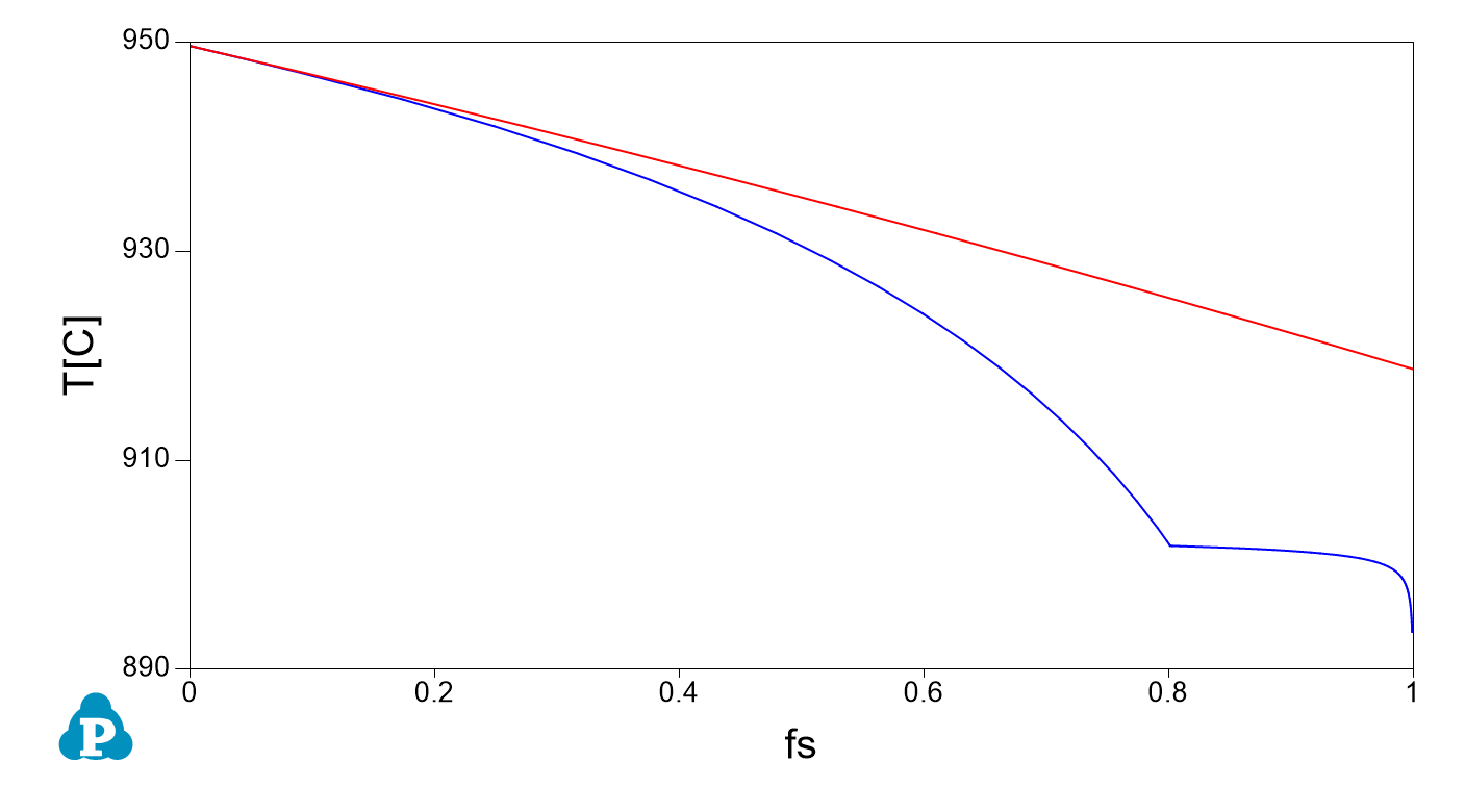 Solidification of a binary Cu Zn alloy, with composiyion of 30% of Zinc in weight, using open version of Computherm Pandat. fs stand for the solid phase, T for temperature ( in Celsius degrees). Red line is solidification according to lever rule, while blue is according to Scheil model